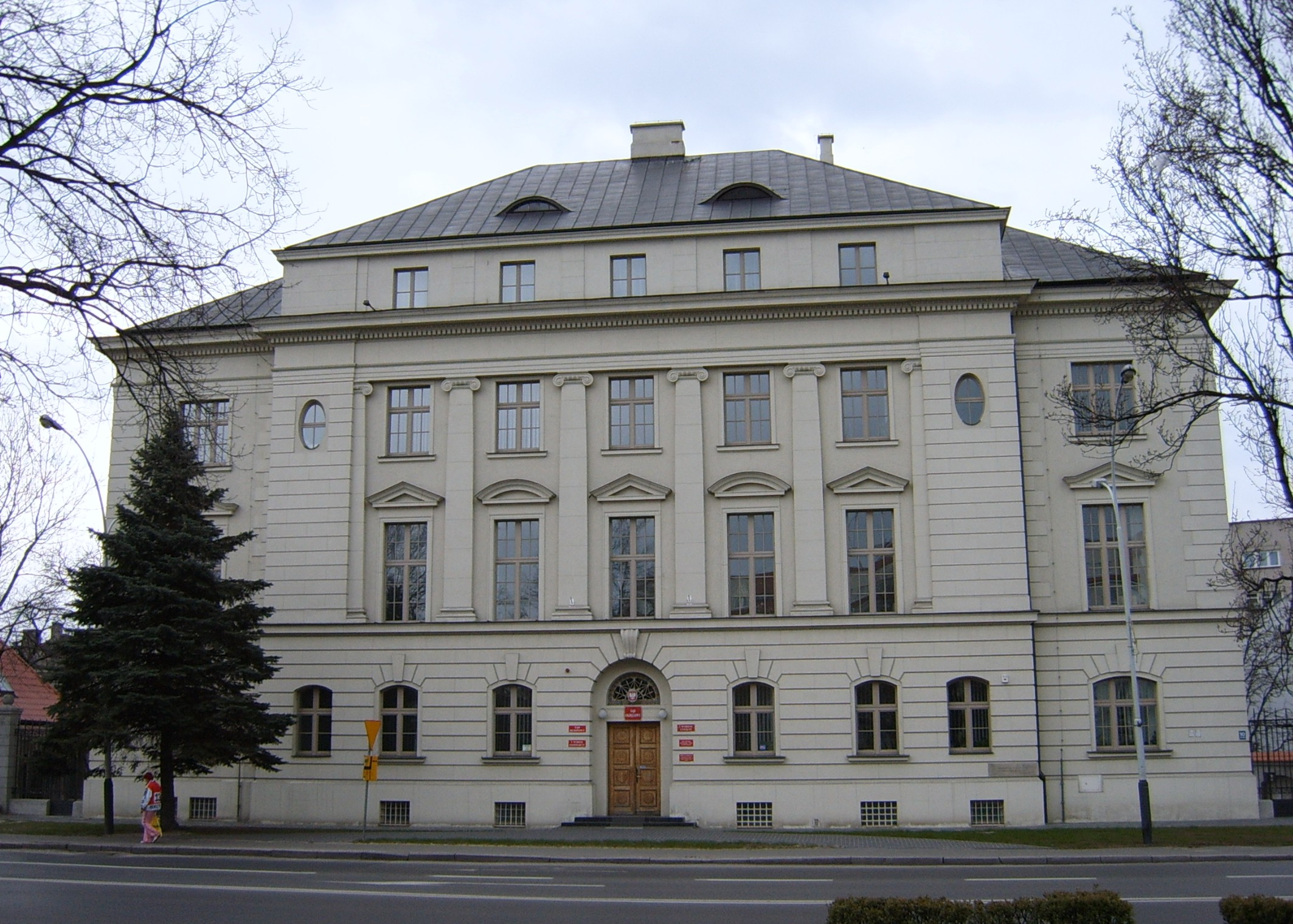 Courthouse in Zamość